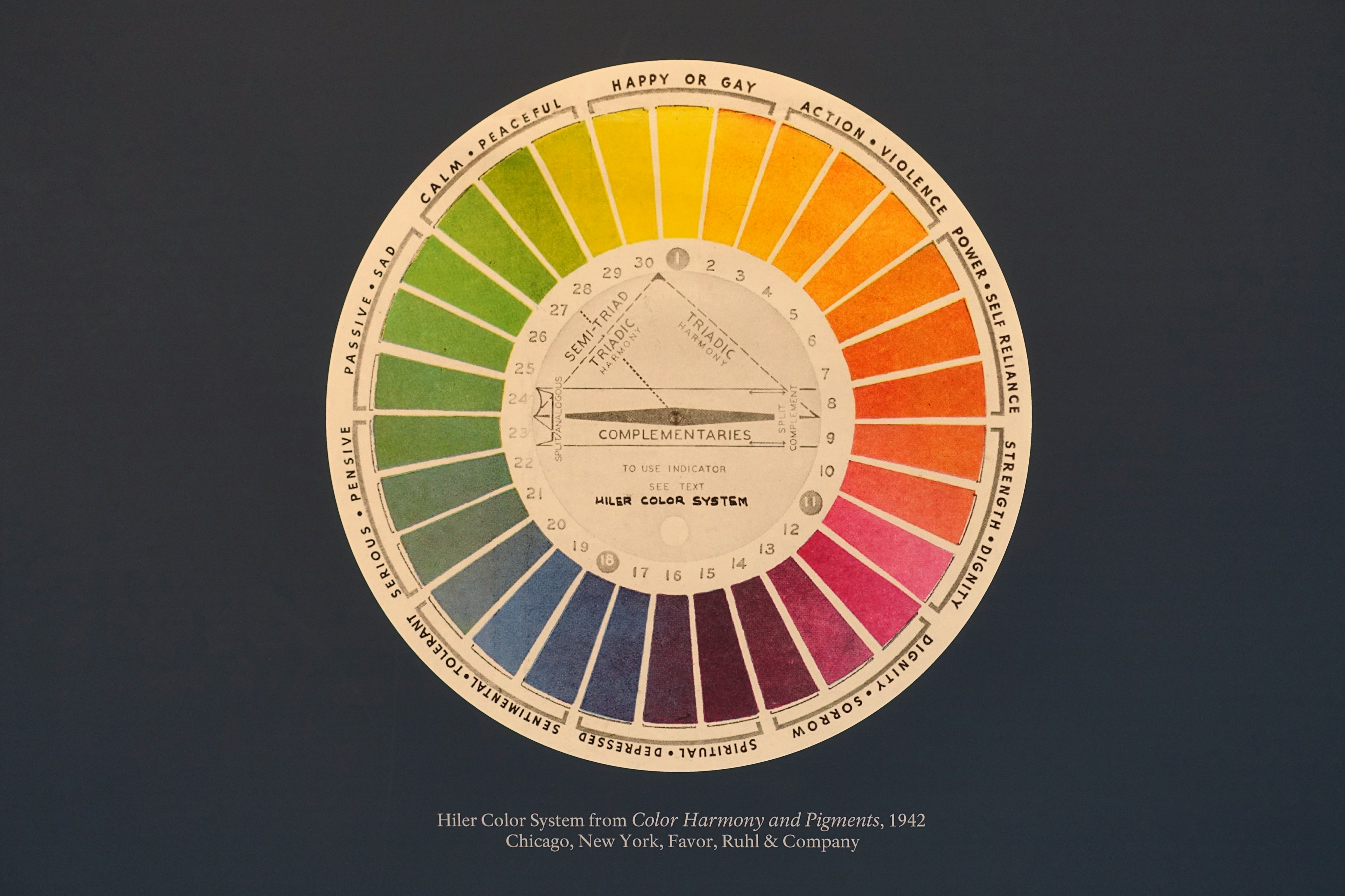 Exhibit in the San Francisco Maritime Museum - San Francisco, California, USA. This figure from Color Harmony and Pigments, by Hilaire Hiler, 1942. It is now in the public domain because it was published in the United States between 1923 and 1963, with its copyright not renewed.